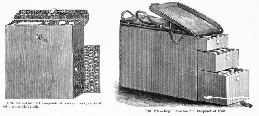 Illustration from The Medical and Surgical History of the War of the Rebellion (USG Printing Office, 1870-88) - Hospital knapsack + wicker work and regulation knapsack of 1862 - part III vol 2 pag 915